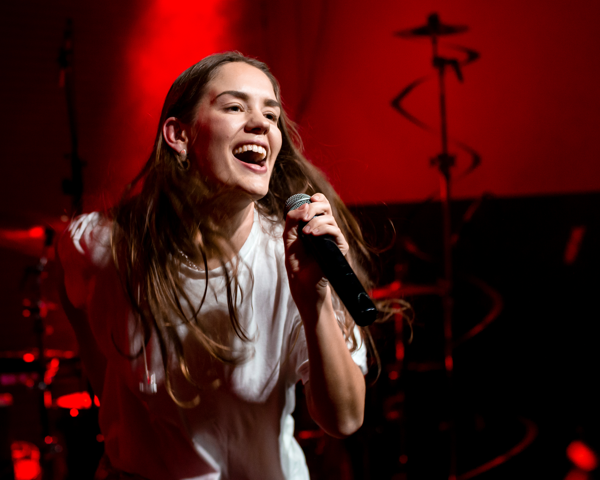 Anna of the North performing live at Resident DTLA in Los Angeles, California, on Thursday, November 8, 2018.